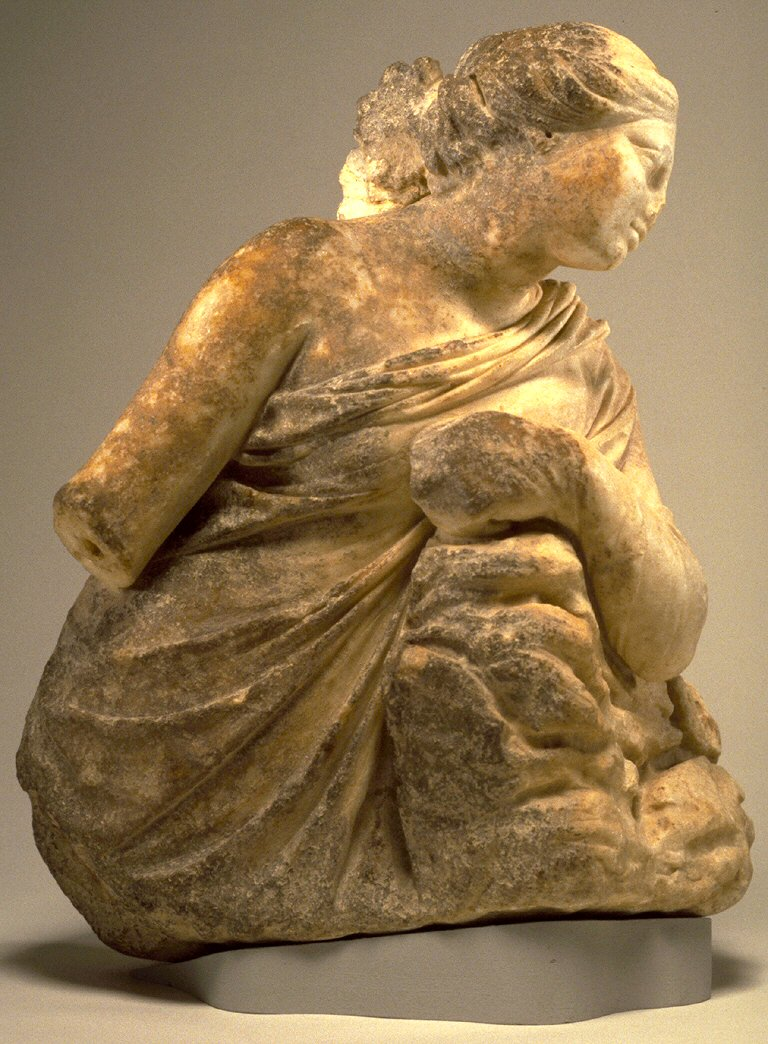 The original statue on which this figure is based no longer survives, but it inspired numerous Hellenistic and Roman copies that were placed in public and private gardens. Statues of the Muses also adorned the great scholarly complex in Alexandria known as the Mouseion, "Place of the Muses," which has given us the modern word "museum."